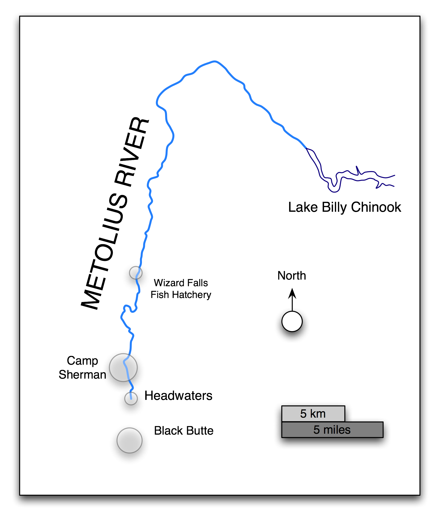 Diagram showing the Metolius River and surrounding areas.